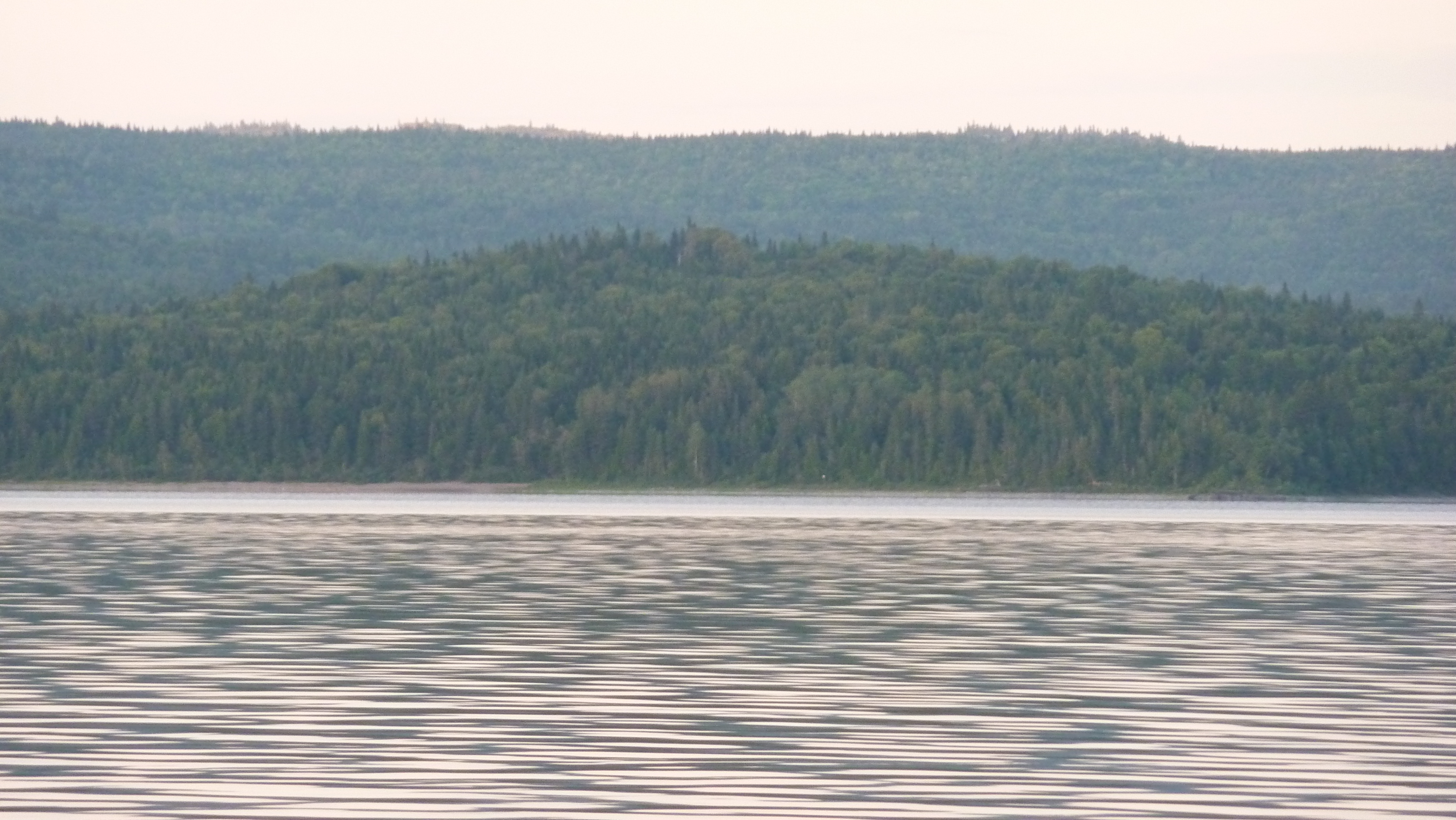 North bank of Matapédia Lake